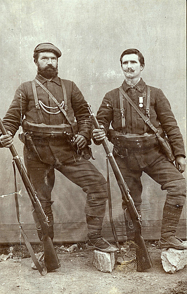 Georgi Ilkov and Georgi Mitrev from Konsko